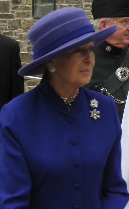 HRH The Princess Alexandra, during her tenure as Colonel-in-Chief of The Queen's Own Rifles of Canada, visits its regimental church, St. Paul's Bloor Street Anglican Church, in Toronto, Ontario, Canada, on April 25, 2010.